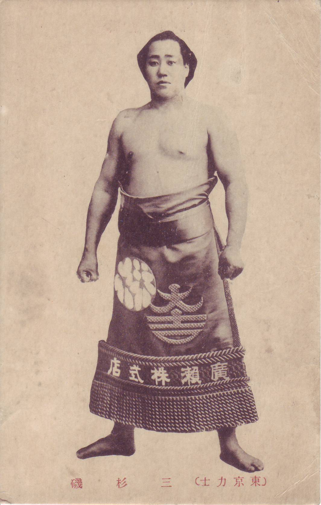 Postcard of Misugiiso Zenshichi (sumo wrestler. Sekiwake).